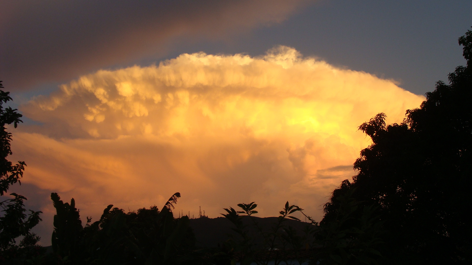 Cumulonimbus in Caracas